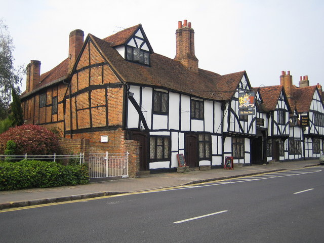 Amersham Old Town: The King's Arms hotel One local guide website describes this building as "Brewer's Tudor". However some of the internal structure dates back to the 15th century. Tracking down the hotel's own website took some time but it is here